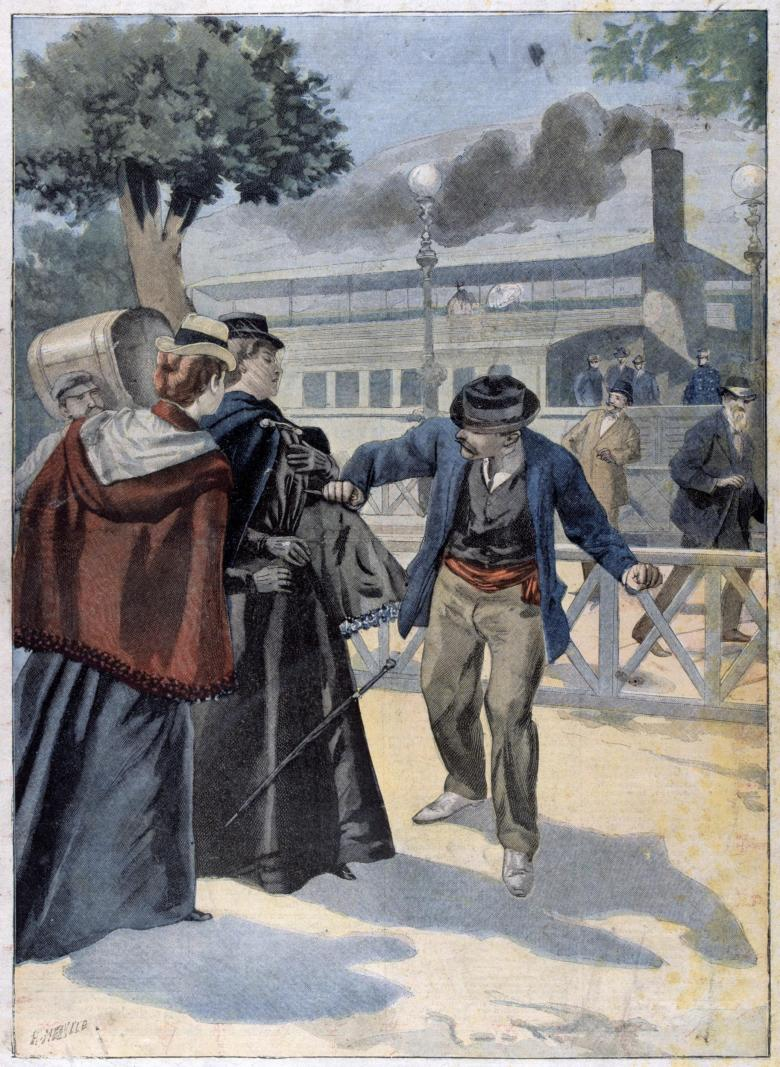 Assassination of Empress Elisabeth of Austria in Geneva by Luigi Lucheni, 1898